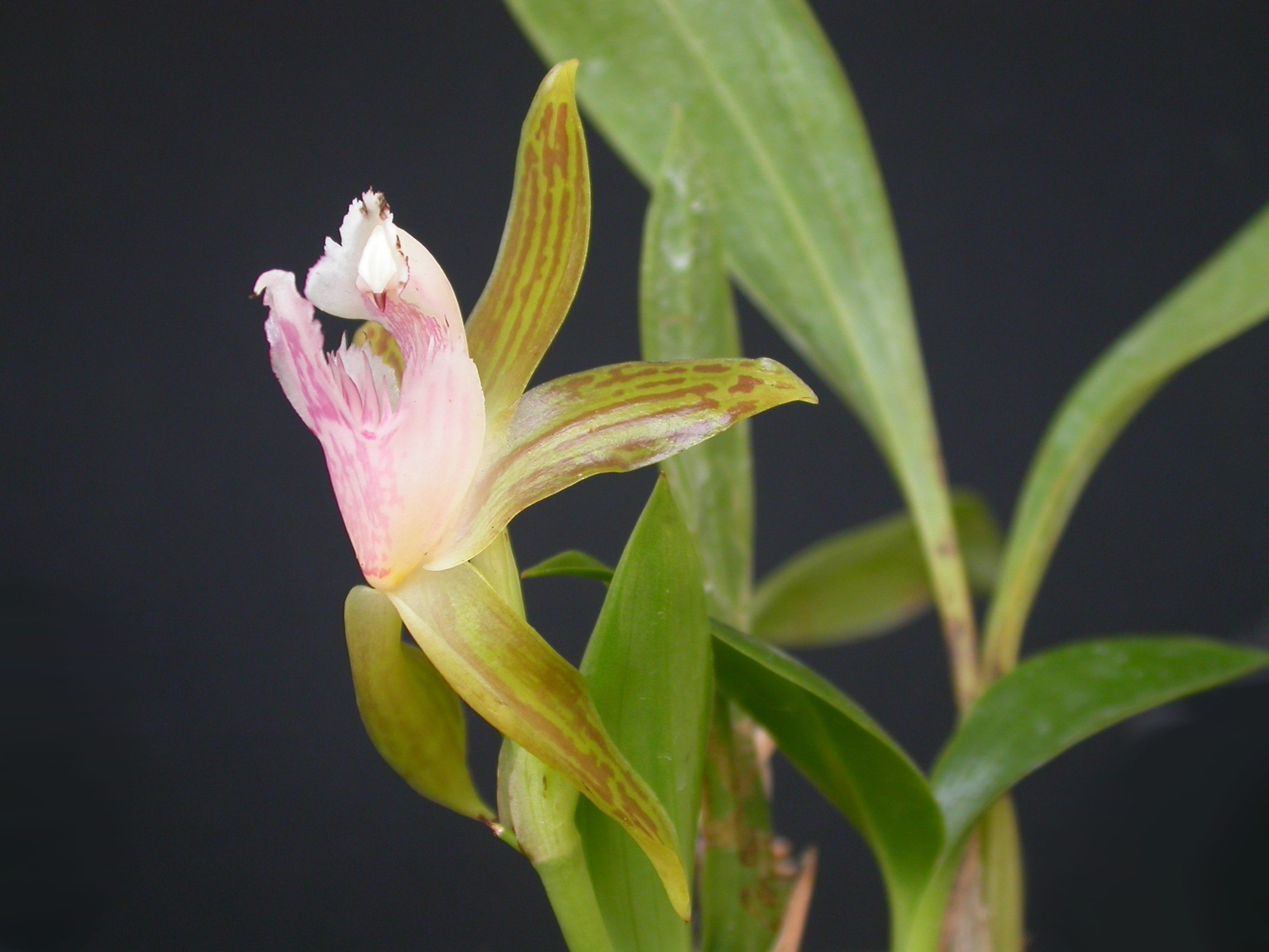 Galeottia ciliata